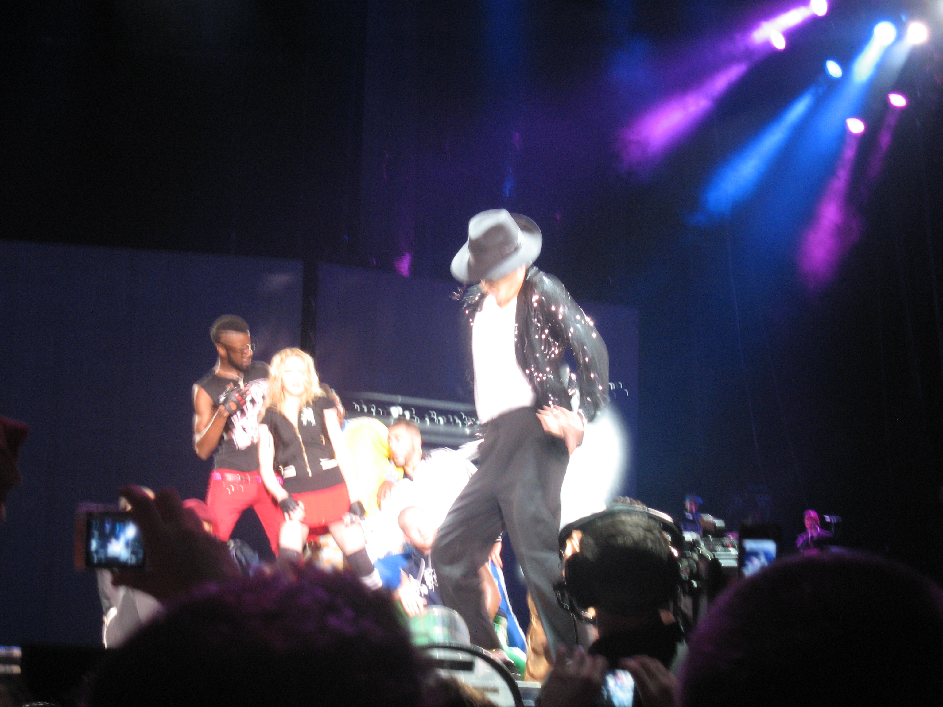 Picture taken at the concert